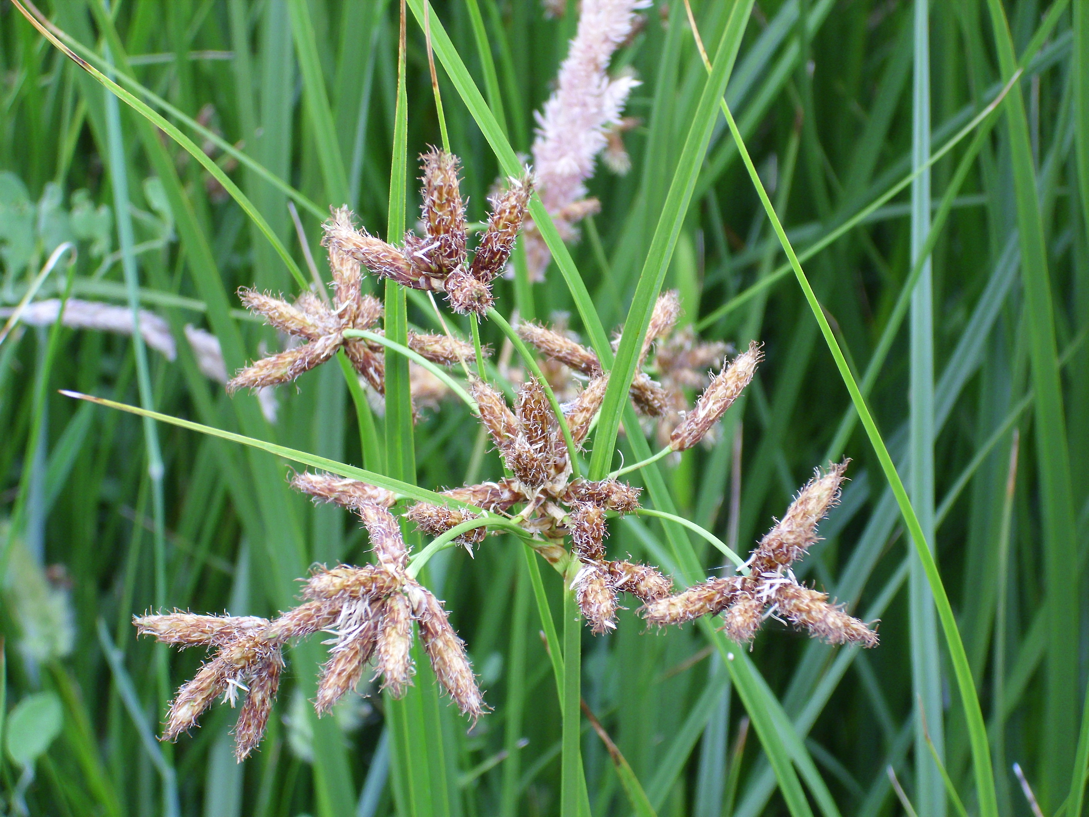 Cyperus longus habit, Campo de Calatrava, Spain